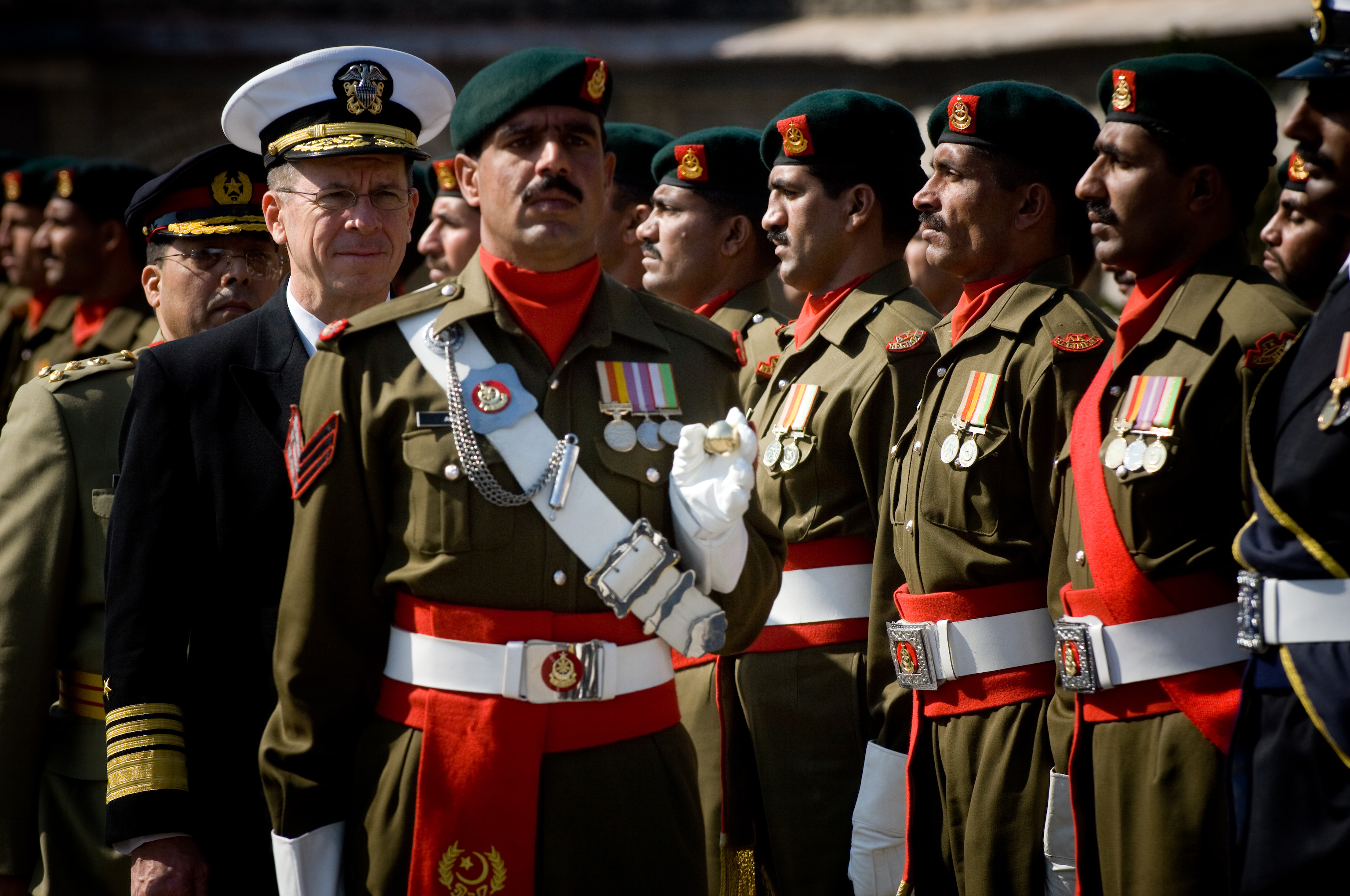 Chairman of the Joint Chiefs of Staff Navy Adm. Mike Mullen reviews Pakistani troops during a ceremony honoring Mullen's arrival to Islamabad, Pakistan, Feb. 9, 2008. Mullen is visiting the country to discuss security issues with Pakistani military officials. DoD photo by Mass Communication Specialist 1st Class Chad J. McNeeley, U.S. Navy.